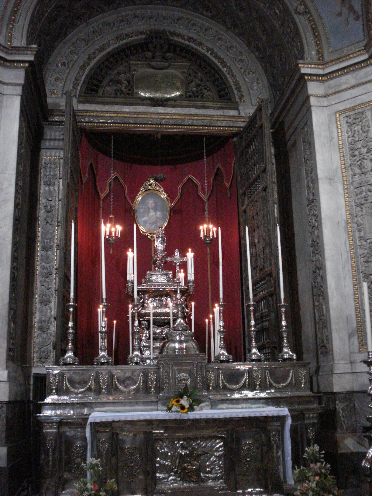 St Rosalia Chapel